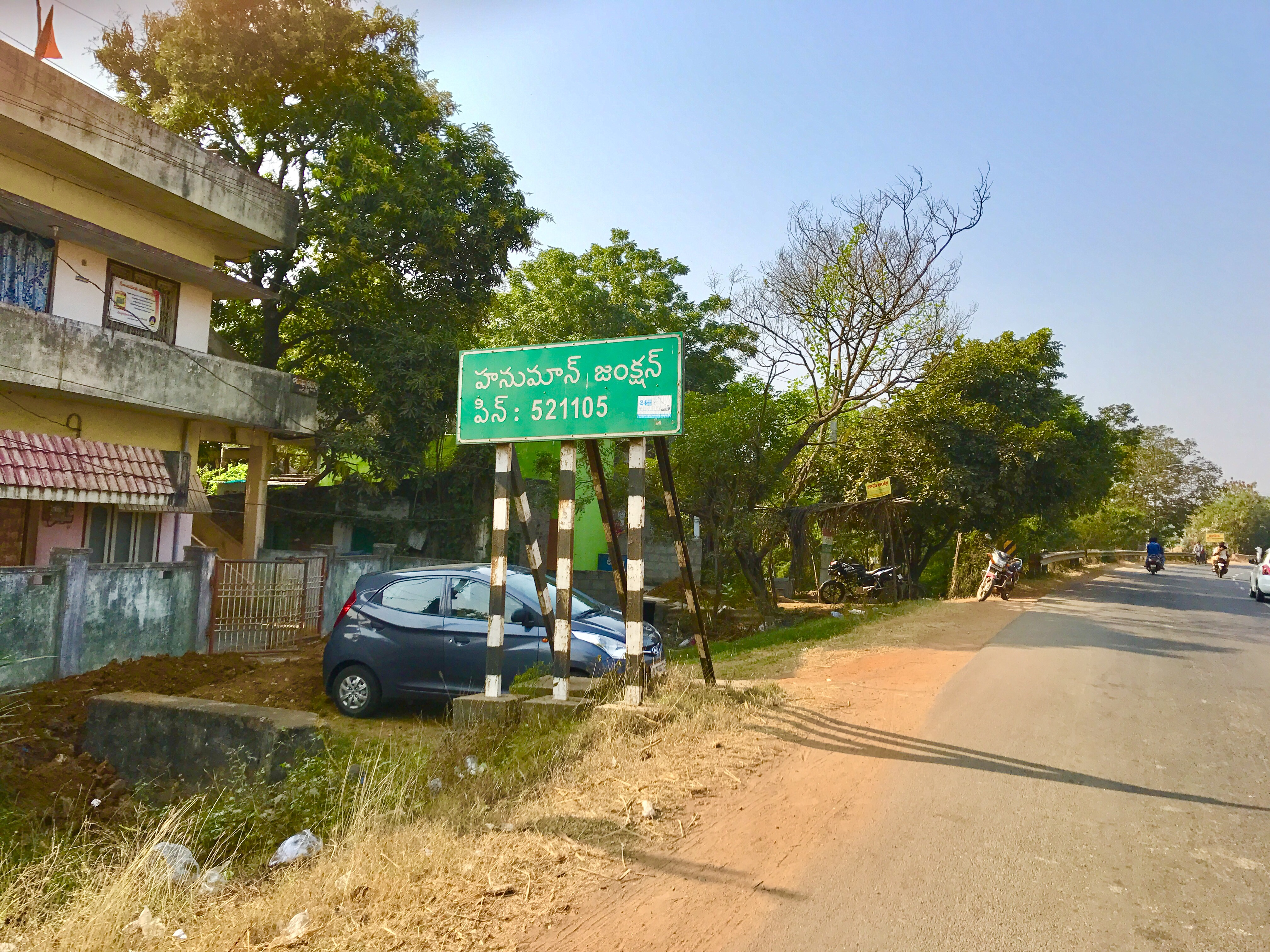 Board showing Hanuman junction